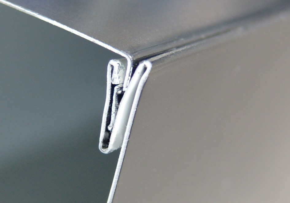 Snap Lock Seam